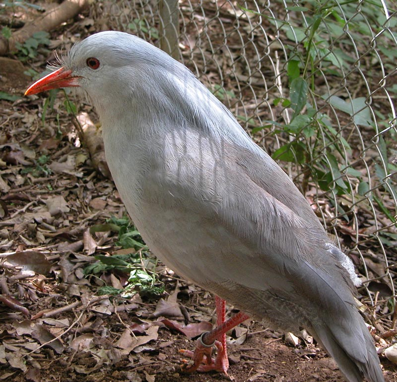 A photo of a cagou (Rhynochetos jubatus) taken by Scott Meyer in New Caledonia.